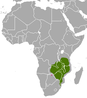 Meller's Mongoose (Rhynchogale melleri) range (green - extant, pink - probably extant)